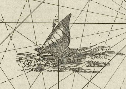 Cropped image of a bigger map, showing a galley in full sail, south of Bay of Gilolo, West of the island of Gilolo. North is to the right of the picture.